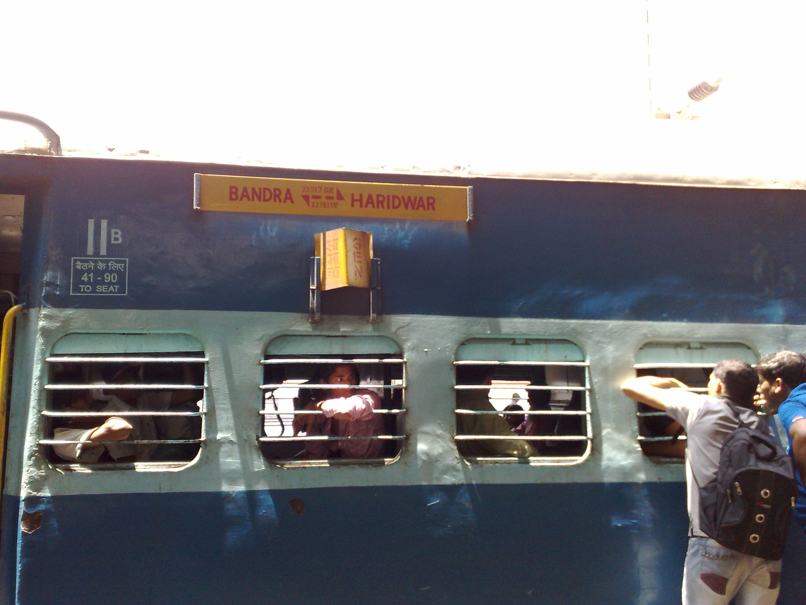 Bandra Terminus Haridwar Express - 2nd Class Class seating coach